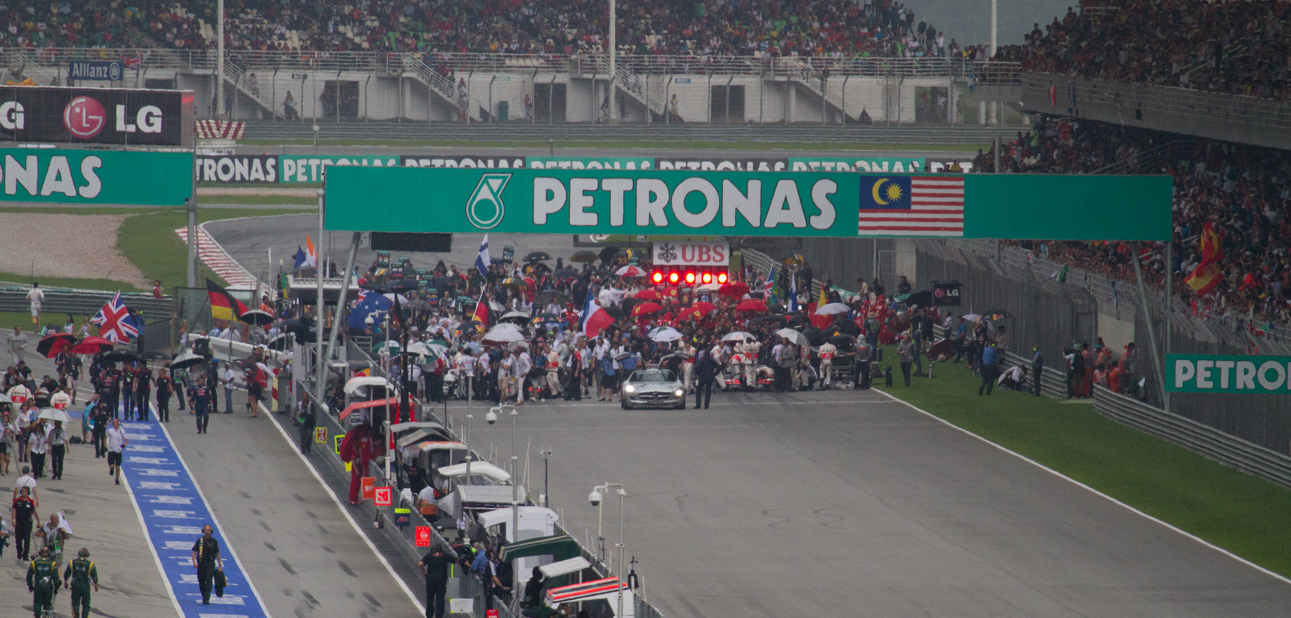 Formula One 2012 Rd.2 Malaysian GP: starting grid